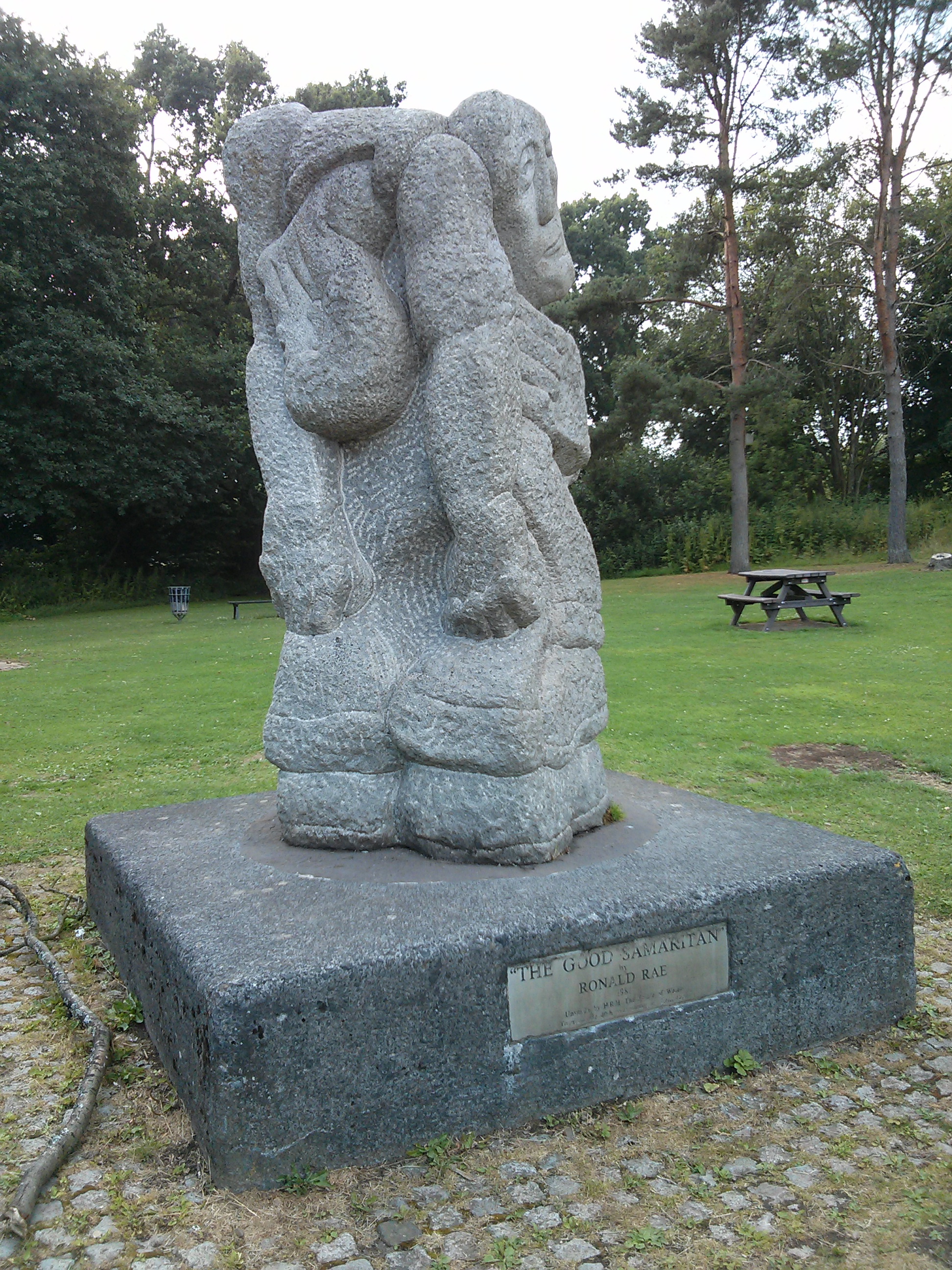 good Samaritan in Glenrothes fife